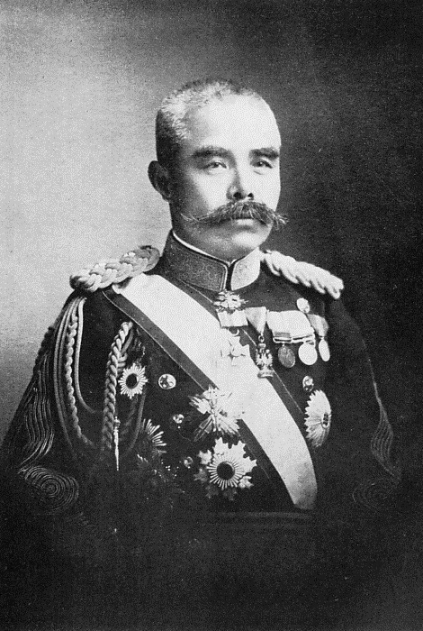 Takesuke Yamane